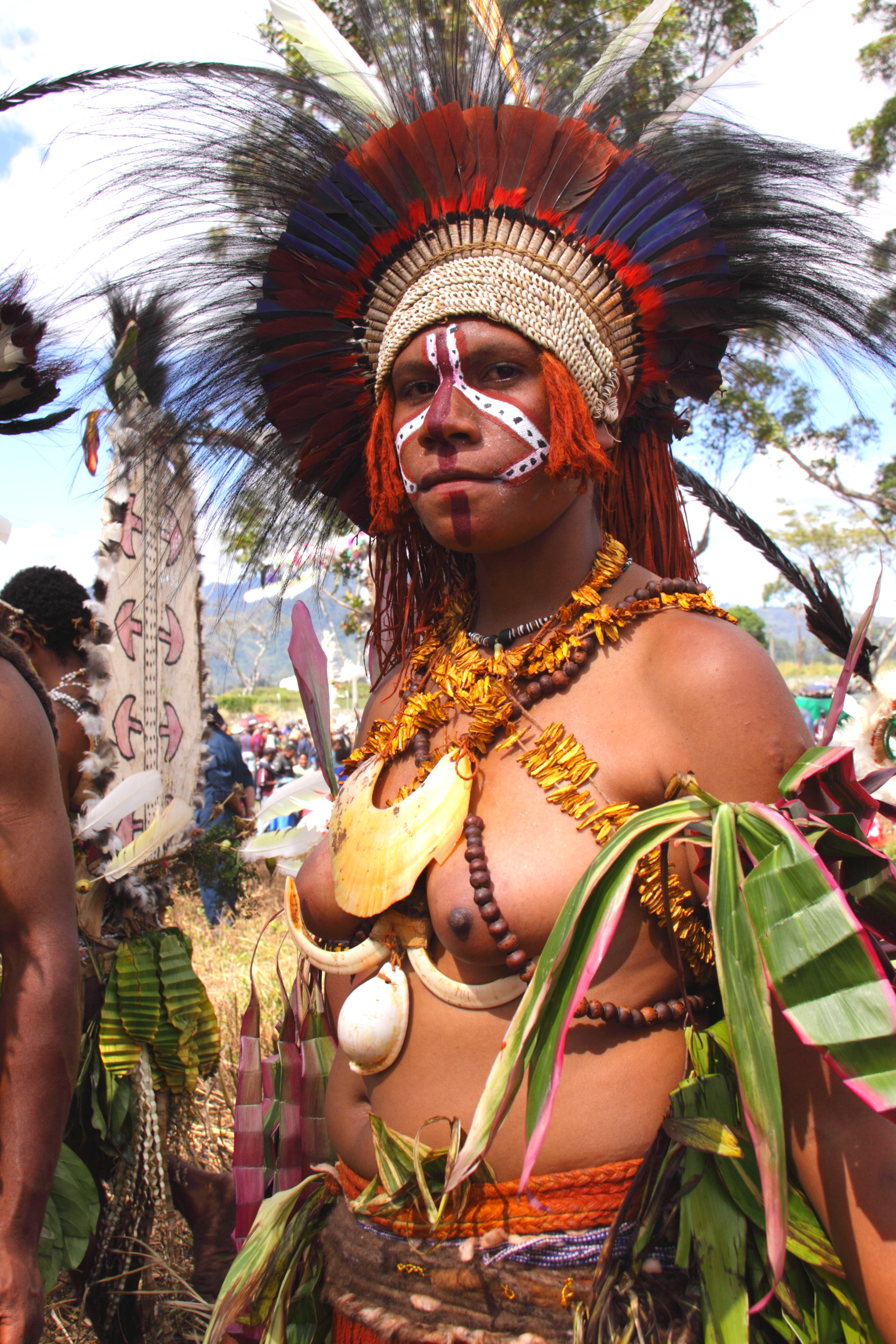 new guiney women papoua from kahure group